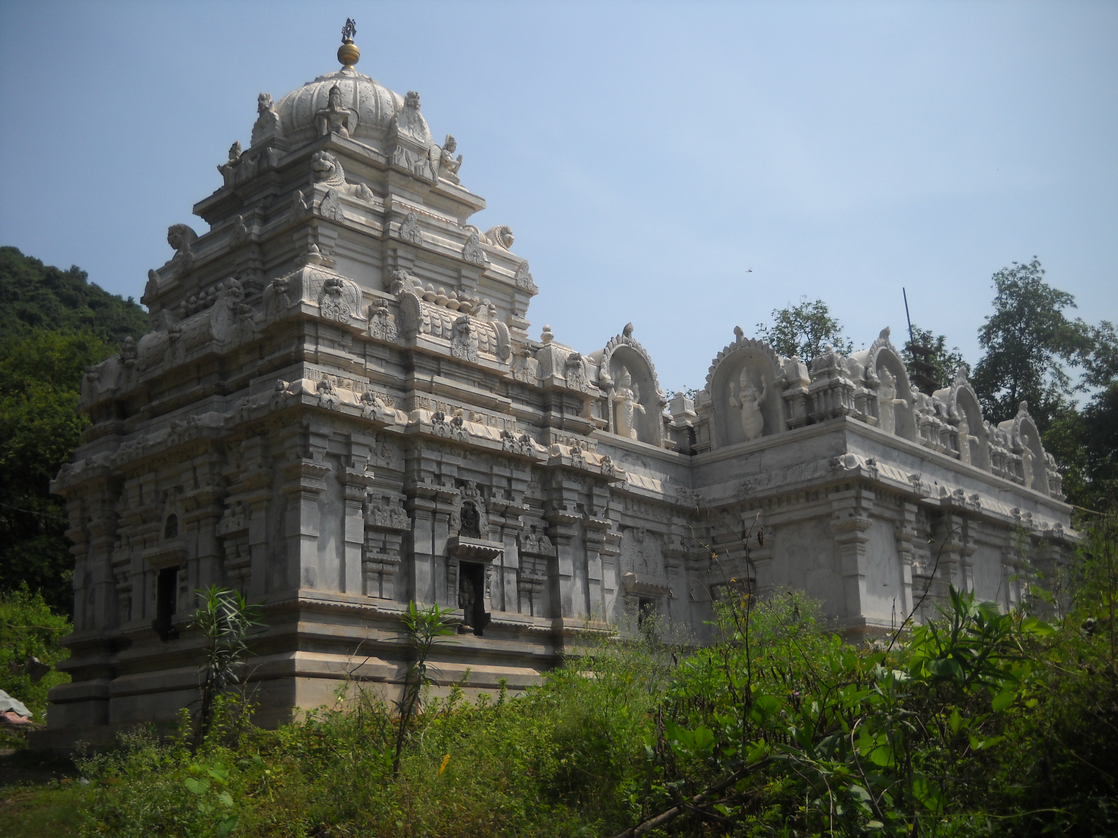 S-AP-456 .Radha Madhava Swamy temple